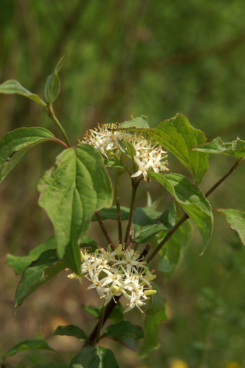 Rdeči dren na prevalu (Toško Čelo).